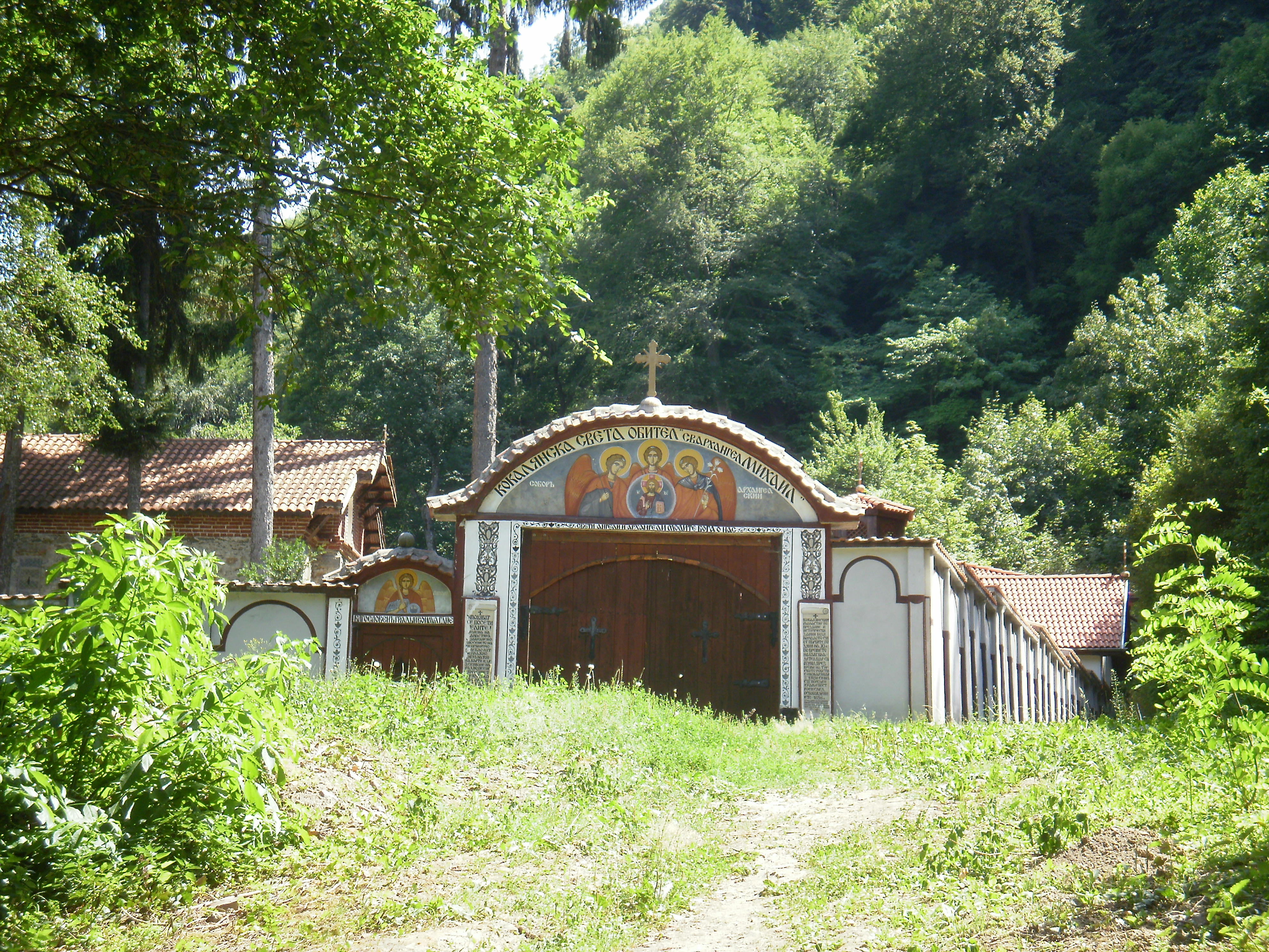 Kokalyane monastery, Bulgaria.